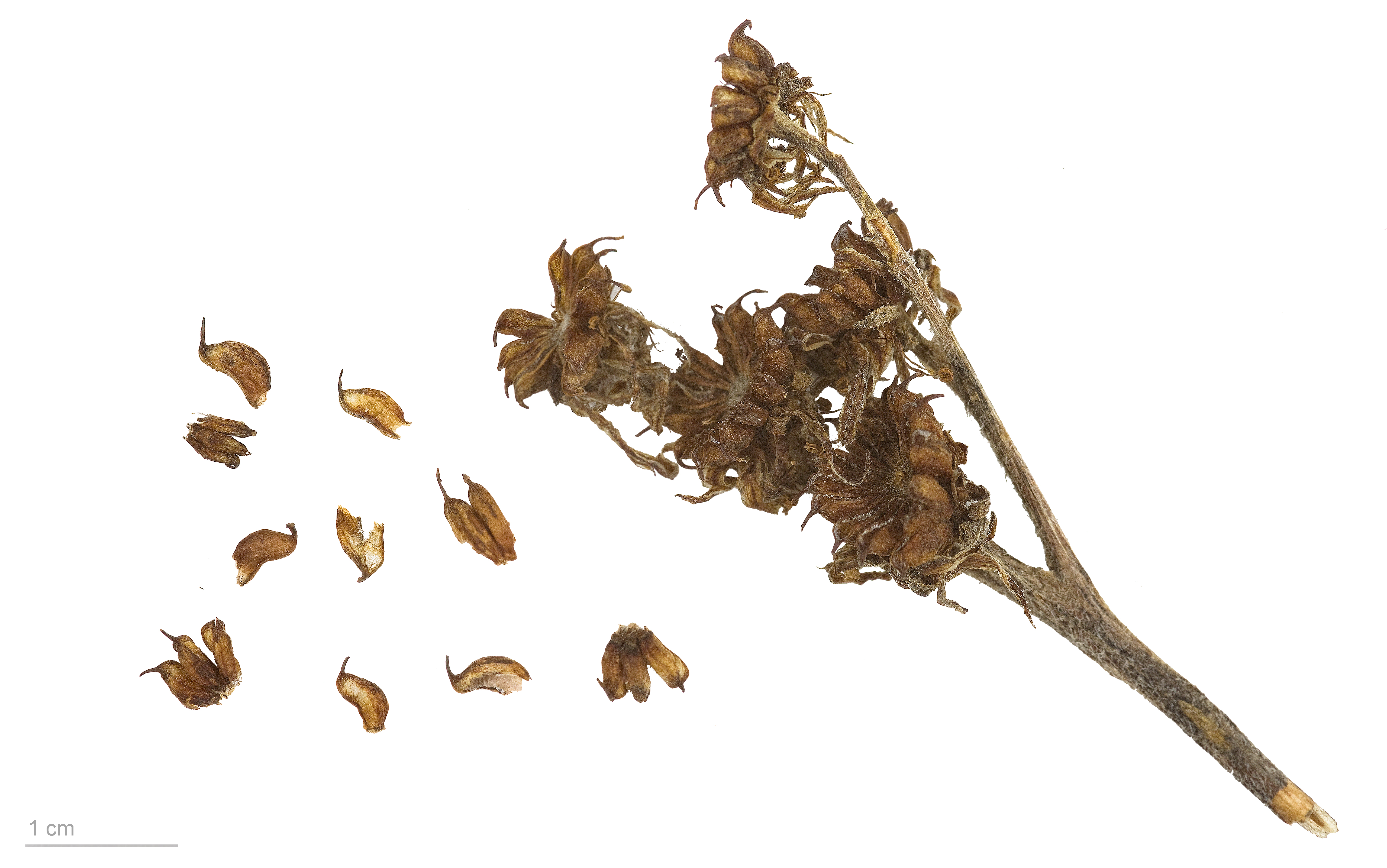 houseleeks , fruits and seeds